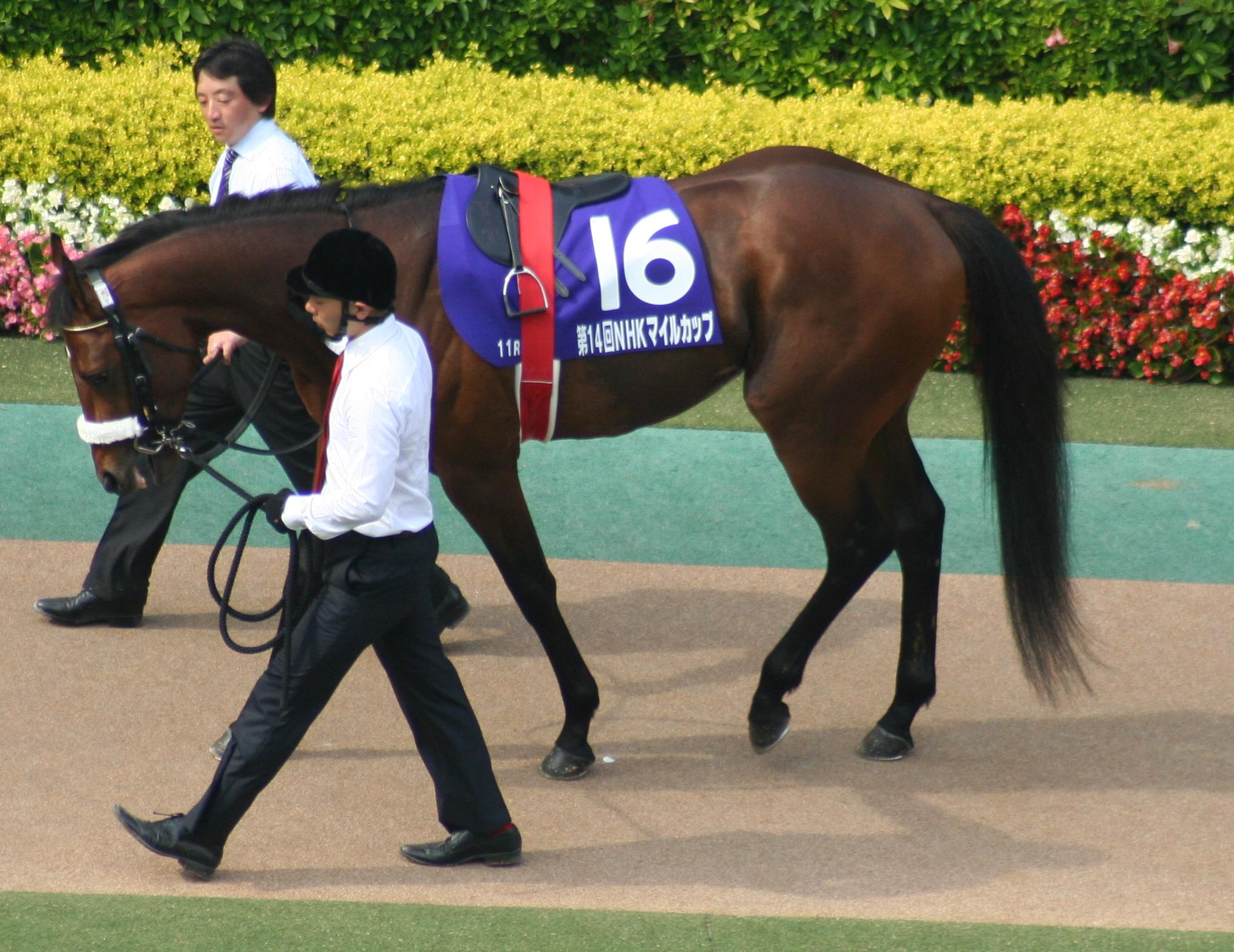 Break Run Out (Horse)